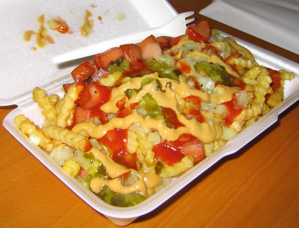 Makkaraperunat-portion, cubed sausage, french fries and excessively ketchup and mustard.